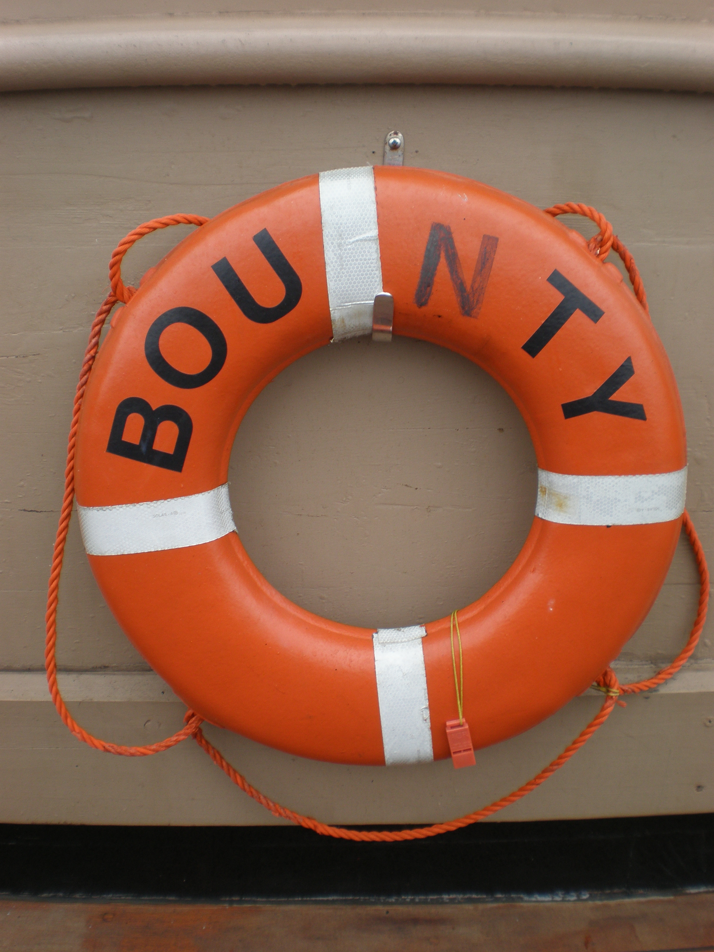 A life preserver on the Bounty II, seen while the ship was docked during the Festival of Sail San Francisco 2008.